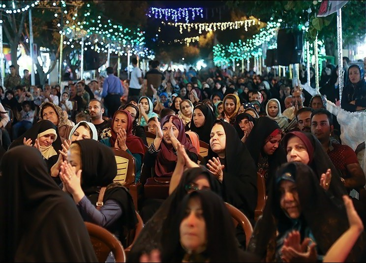 Eid al-Ghadeer celebration in Shah-Abdol-Azim shrine- Iran September 1395